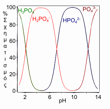 Phosphoric acid speciation